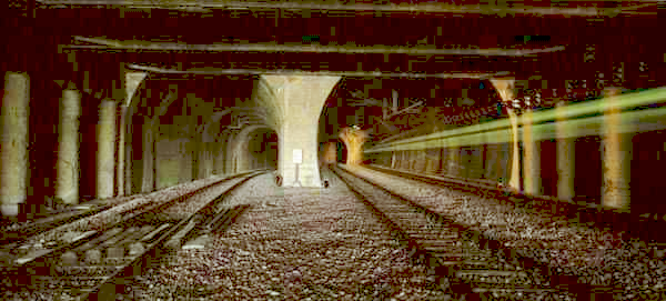 Bifurkation Tunnel Dedinje